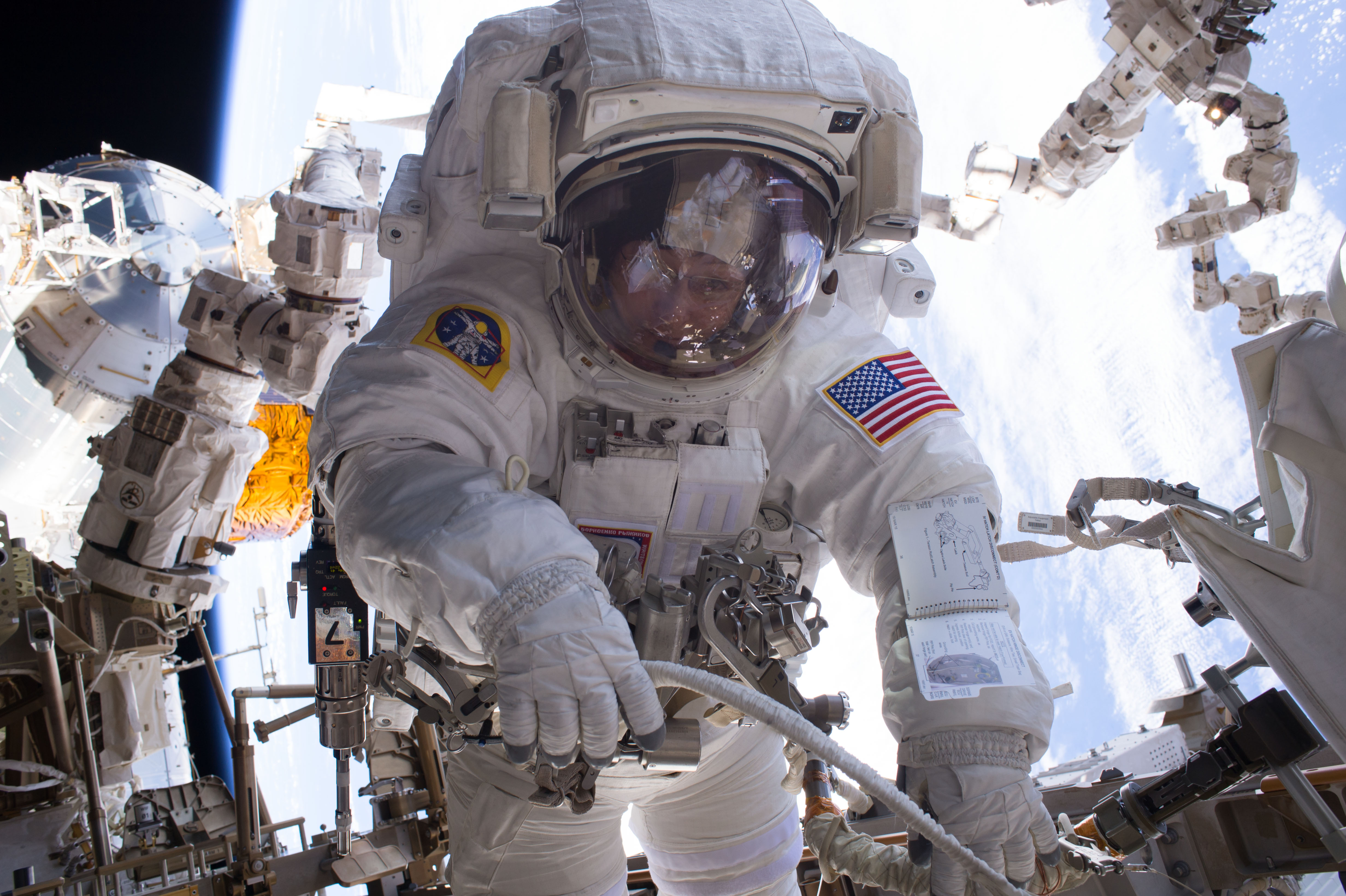 NASA astronaut Peggy Whitson is seen during a spacewalk during Expedition 50 aboard the International Space Station. Whitson and fellow NASA astronaut Shane Kimbrough successfully installed three new adapter plates and hooked up electrical connections for three of the six new lithium-ion batteries on the International Space Station. They also accomplished several get-ahead tasks, including a photo survey of the Alpha Magnetic Spectrometer.